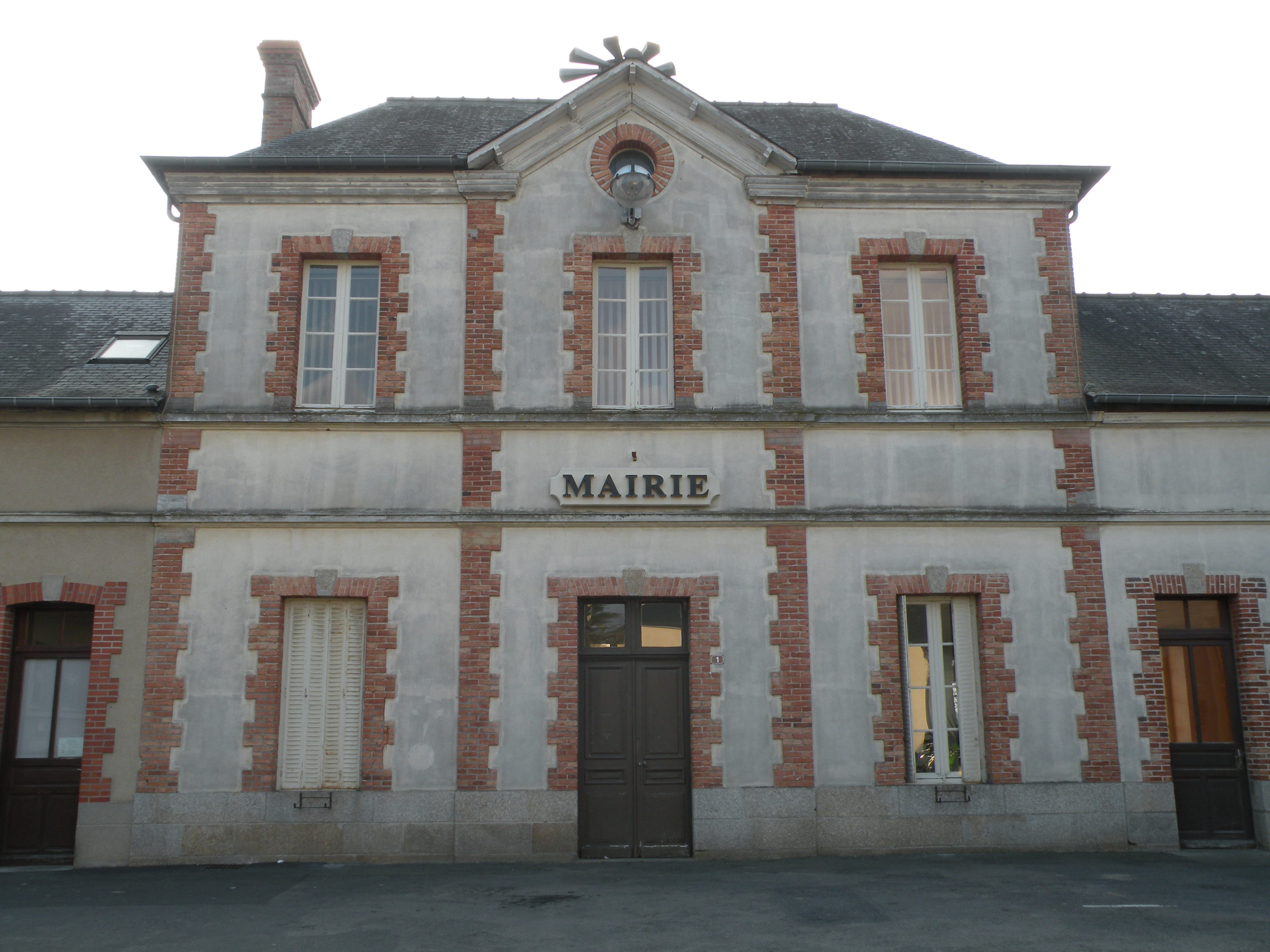 Town hall of Grand-Fougeray